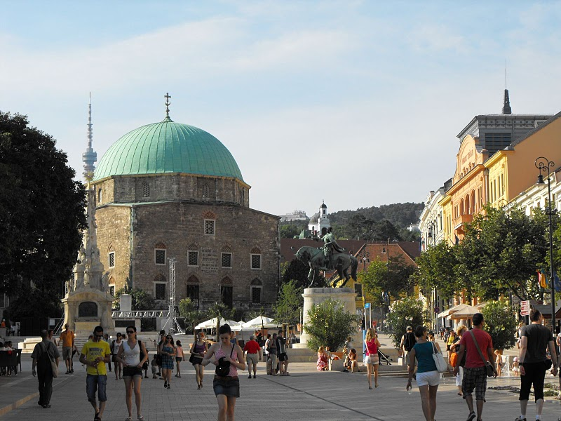 Széchenyi square, Pécs, Hungary. Renovated in 2010.